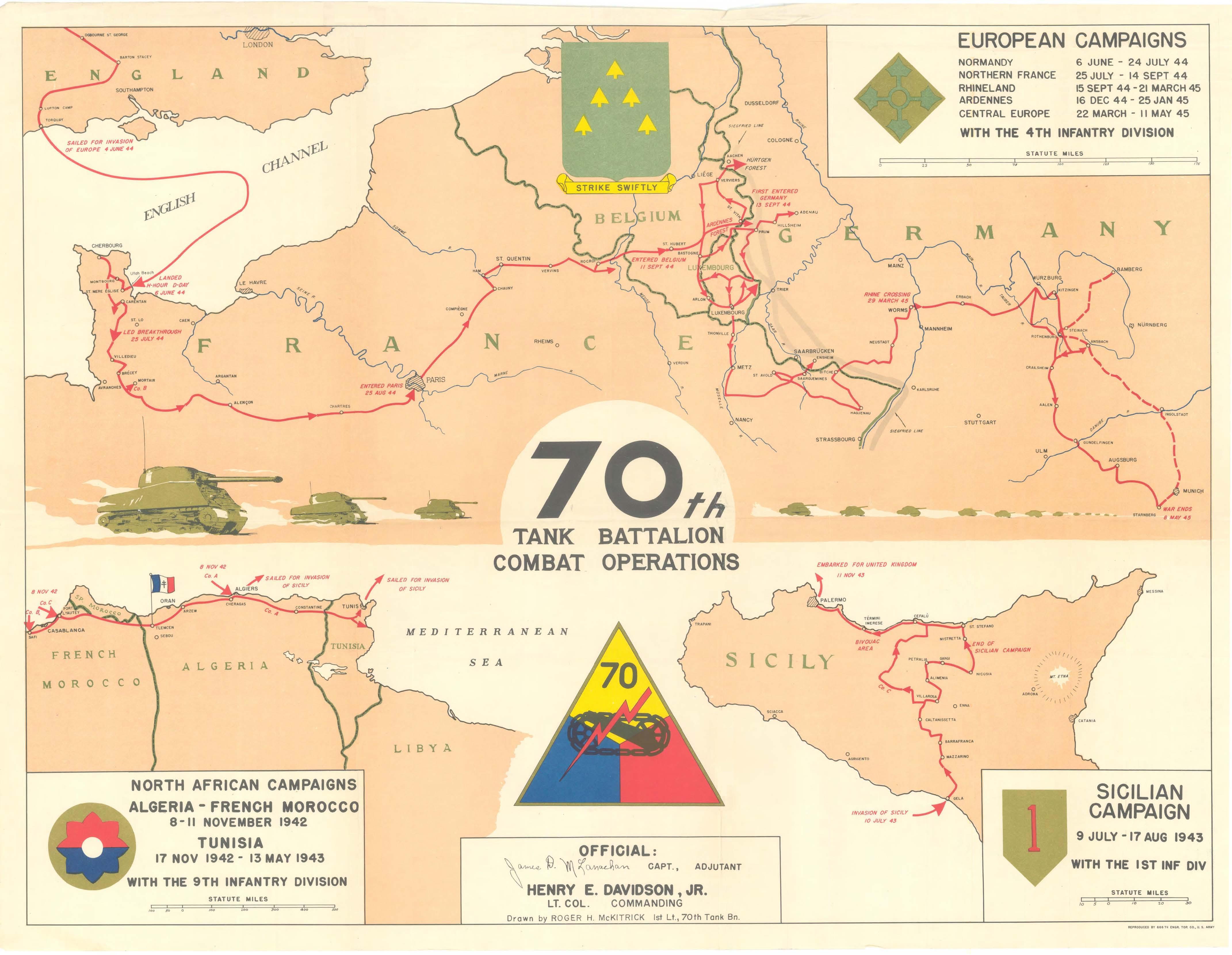 Map showing the locations where the elements of the 70th Tank Battalion fought in North Africa, Sicily, France, Belgium, Luxembourg, and Germany during World War II from November 1942 to May 1945. Map is included as part of the 70th Tank Battalion After Action Report (AAR).